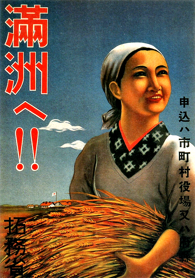 Poster to recruit immigrant to Manchukuo